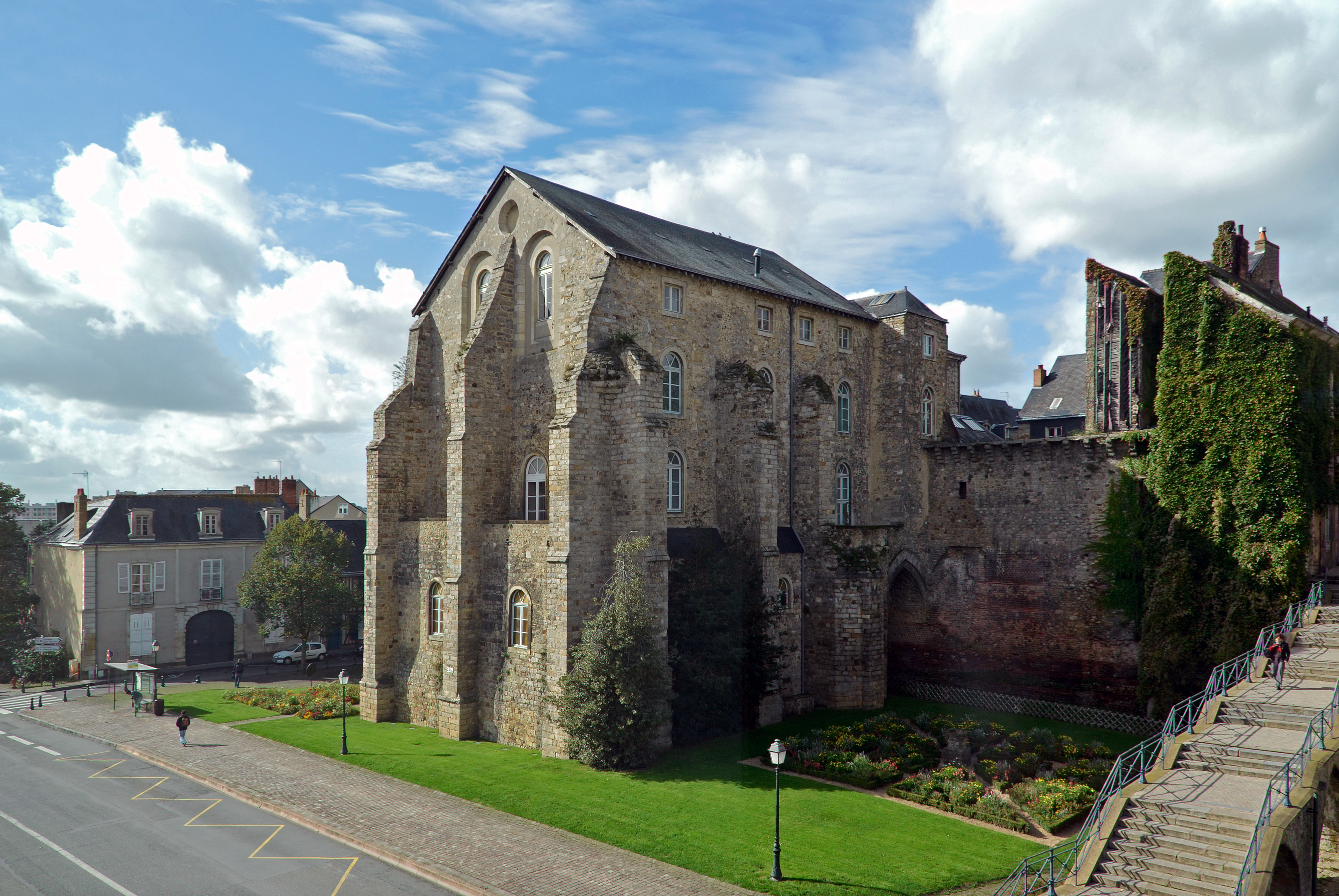 Collegiate church Saint-Pierre-la-Cour - Le Mans (Sarthe, France). .